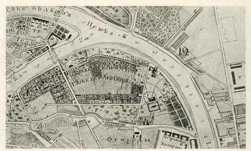 St.-Petersbourg Botanical garden, 1843 area plan